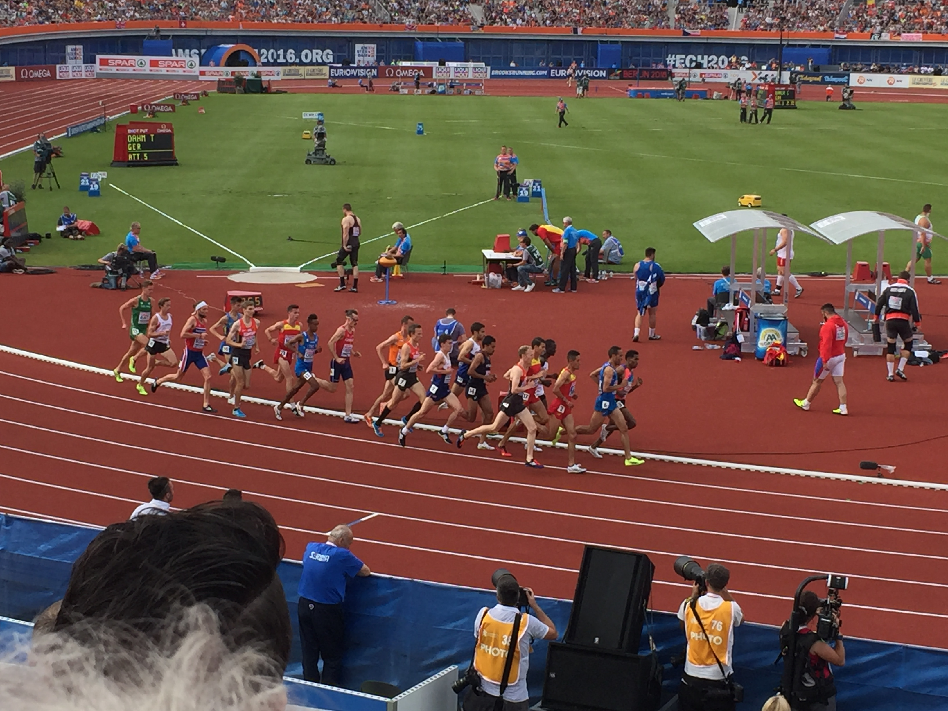 European Athletic Championships 2016 in Amsterdam - 10 July 2016 European Championships in Athletics (10 August) Schedule for this day: Finals: 17:00 High Jump M 17:05 400m Hurdles W 17:10 Hammer Throw M 17:15 3000m Steeplechase W 17:25 Triple Jump W 17:30 Shot Put M 17:35 4 x 100m W 17:45 1500m W 17:55 4 x 100m M 18:10 5000m M 18:30 800m M 18:40 4 x 400m W 18:50 4 x 400m M